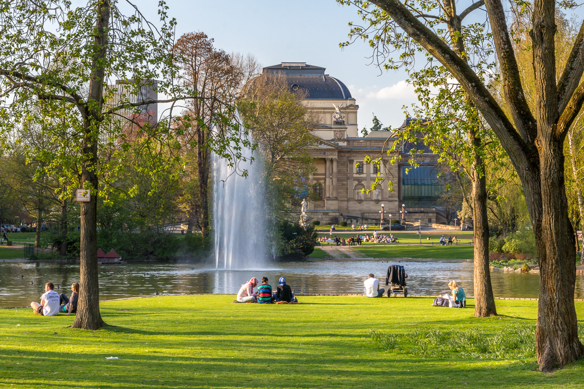 "Am Warmen Damm" Wiesbaden. Pond and Theatre. Spring 2013